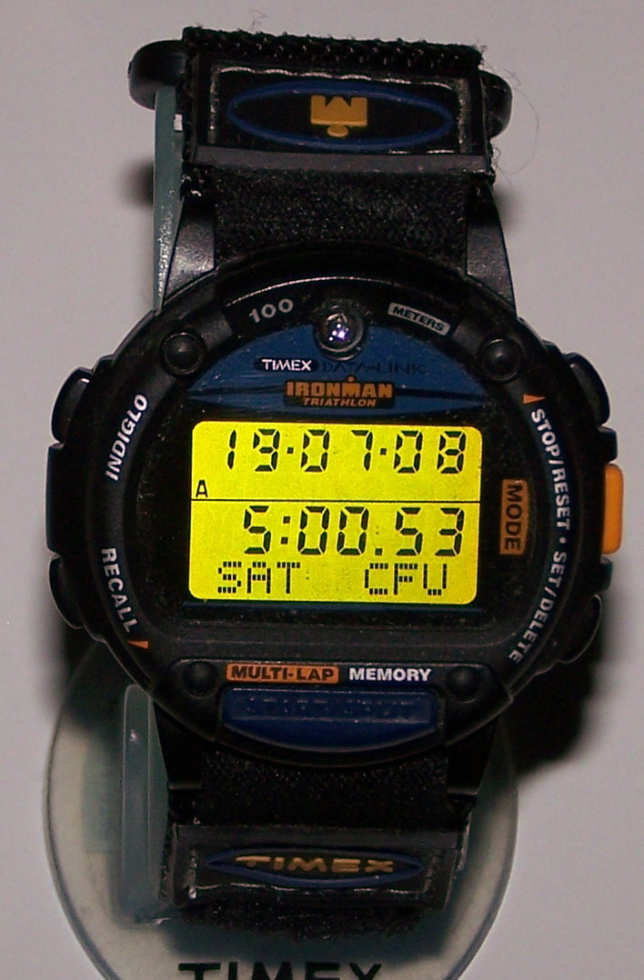 Please see filename